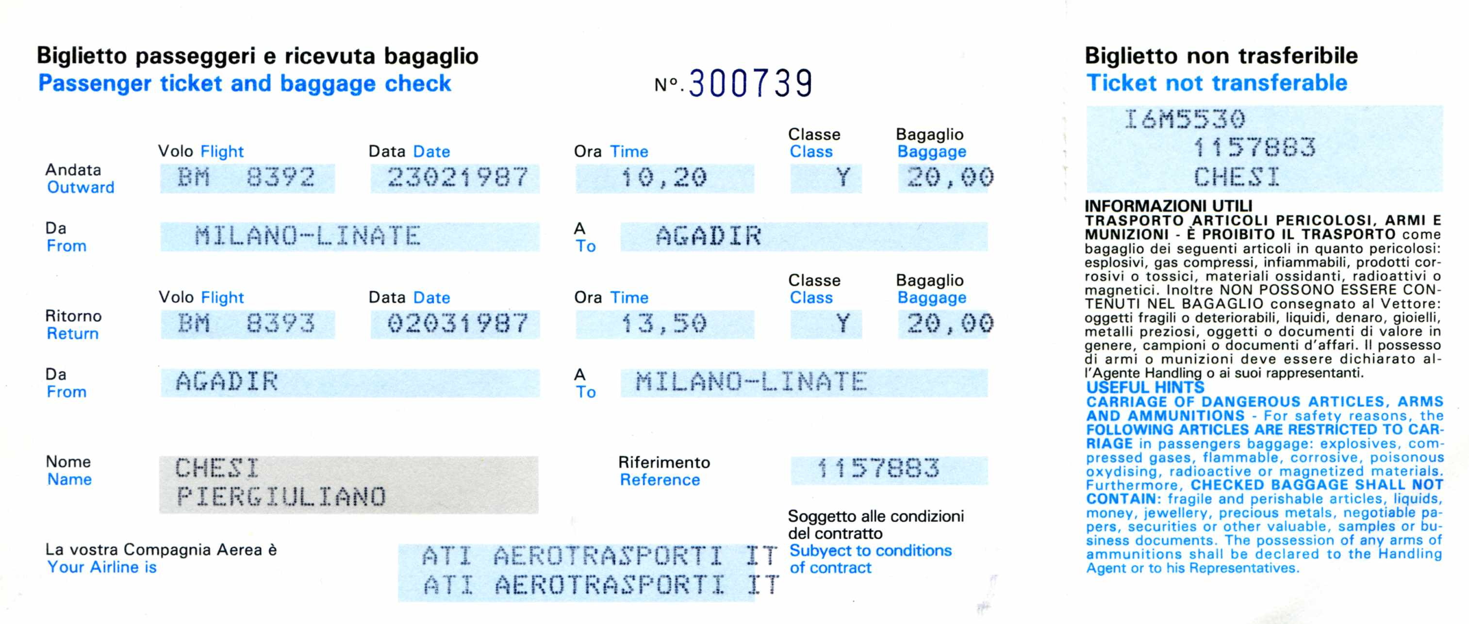 Italy, Aero Trasporti Italiani airline ticket issued on February 27, 1987.